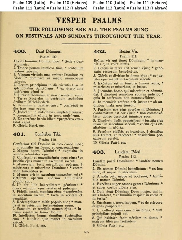 Vesper Psalms 109 (110) Dixit Dominus - 110 (111) Confitebor tibi - 111 (112) Beatus vir - 112 (113) Laudate, pueri